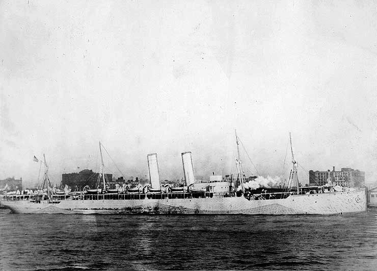 SS Finland (American Passenger Steamship, 1902) Photographed while serving as a transport during World War I, probably in 1917. She was USS Finland (ID # 4543) in 1918-1919. This view, which shows her in one of the experimental camouflage schemes used in about 1917, has been heavily retouched. Courtesy of the International Merchantile Marine Company, New York City. U.S. Naval Historical Center Photograph.